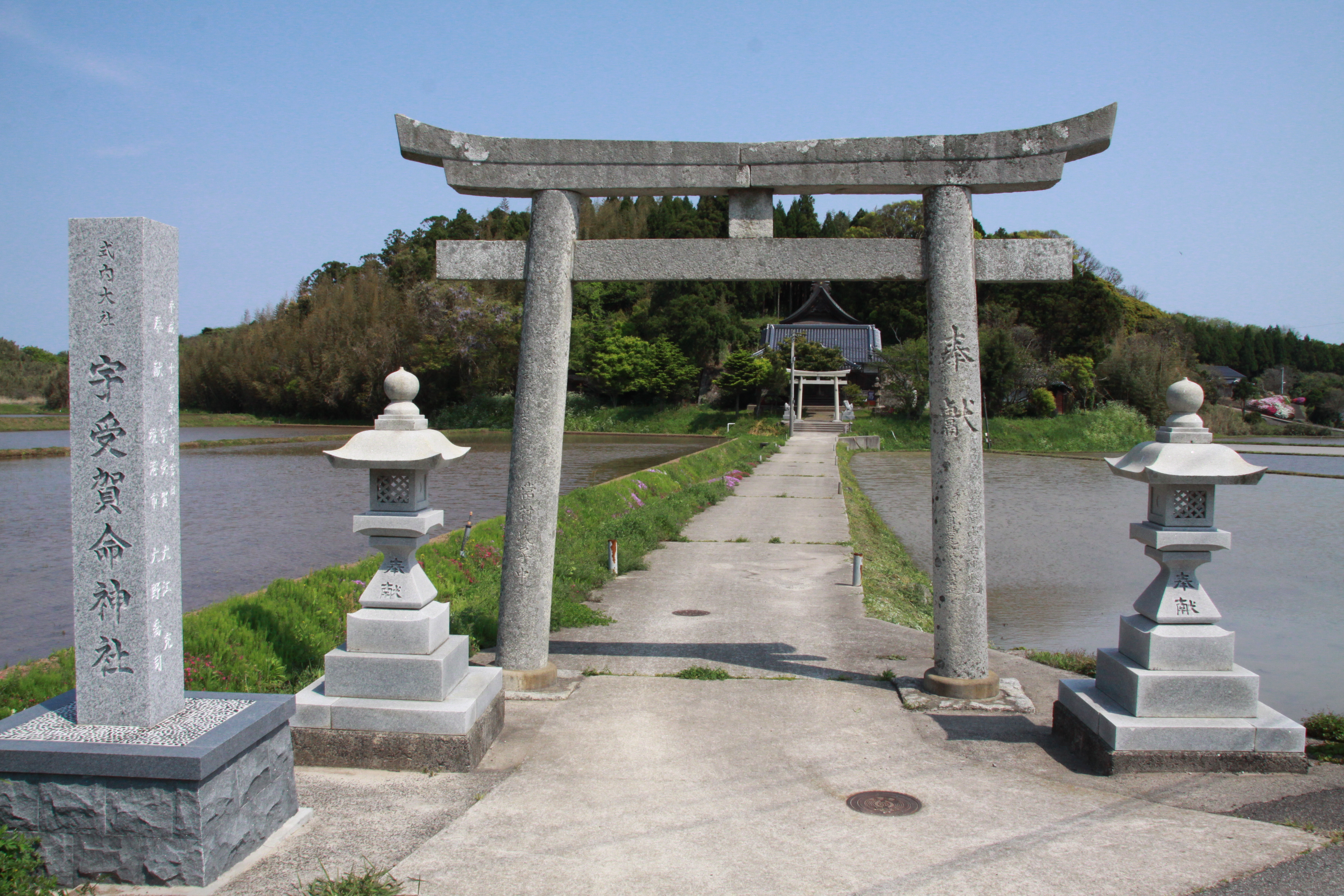 Torri on the way to Uduka Mikoto Jinja Shrine at Nakanoshima (Ama Town), Shimane prefecture, Japan.